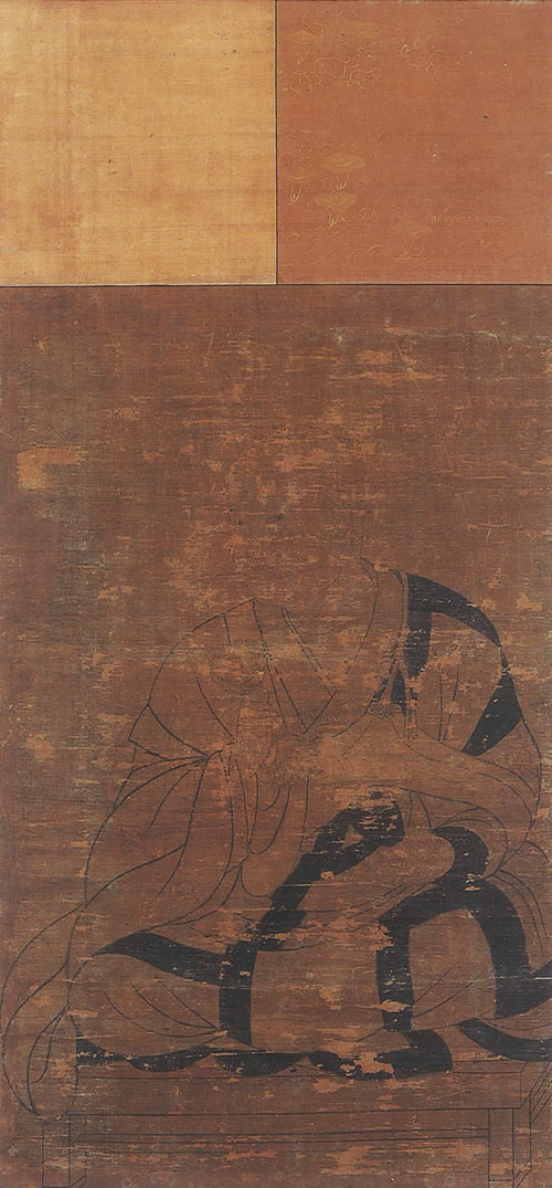 Kangen, Daigoji, Kyoto, Japan